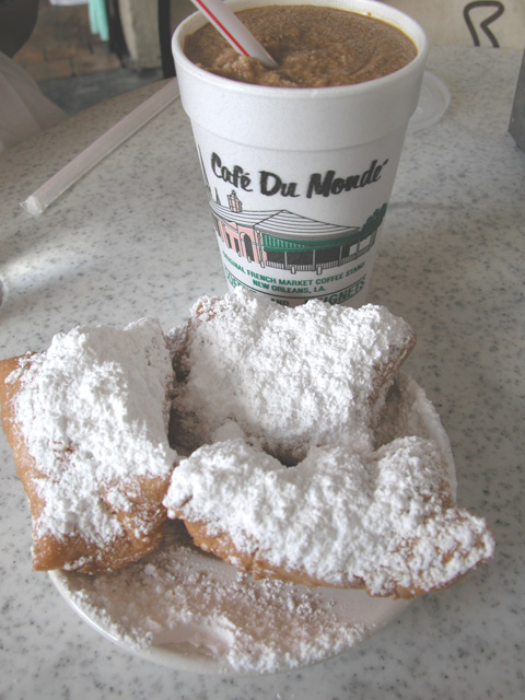 Beignets and Frozen Café Au Lait at Café Du Monde in New Orleans, Louisiana. Photo courtesy of Jason Perlow Previously uploaded to Wikipedia 03:24, 22 December 2005 by User:Perlow